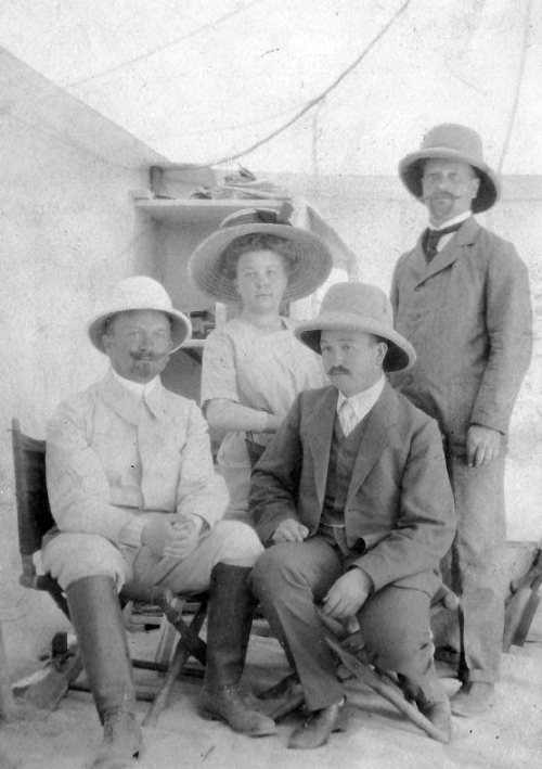 The German Egyptologist Hermann Junker on the cemetery of Arminna in the Egyptian part of Nubia in the years 1911/12, sitting on the right.